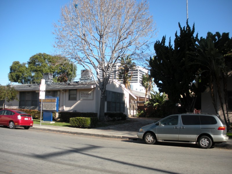 Nora Sterry School, LAUSD, West Los Angeles, California